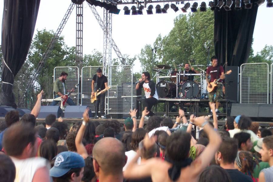 Hamlet in Tintorrock Festival 2003. Aranda de Duero (Burgos)